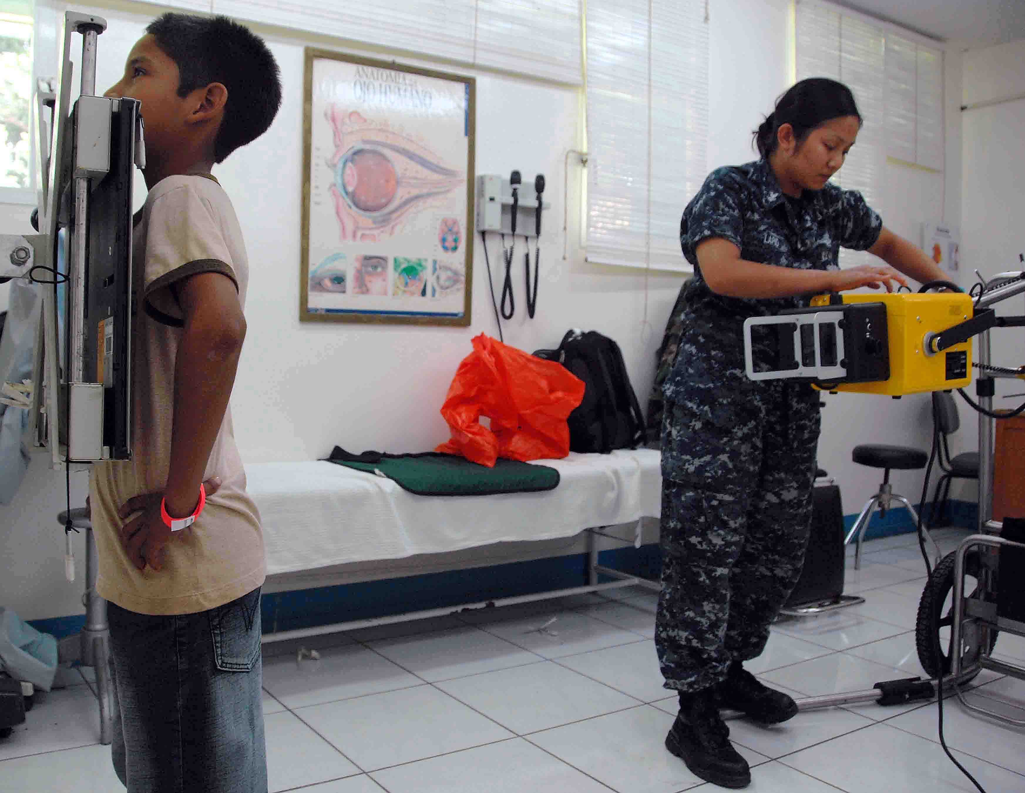 CORNINTO, Nicaragua (July 4, 2009) Hospital Corpsman 2nd Class Kleinne Lapid takes a chest X-ray of a patient during a Continuing Promise 2009 medical community service project at Hospital Espana in Chaminga, Nicaragua. Lapid is an X-ray technician assigned to the Military Sealift Command hospital ship USNS Comfort (T-AH 20). Nicaragua will be the final stop for Comfort during the four-month Continuing Promise humanitarian and civic assistance mission to Latin America and the Caribbean region. (U.S. Navy photo by Mass Communication Specialist 2nd Class Marcus Suorez/Released)